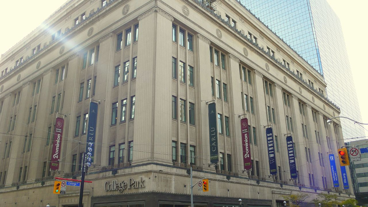 College Park, Toronto, Canada